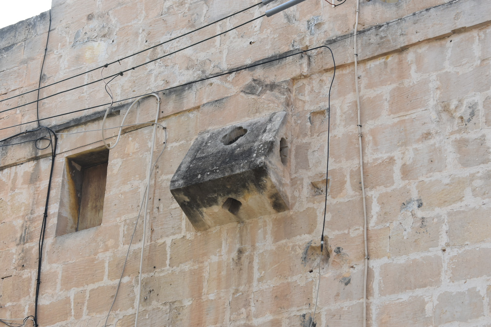 Żabbar